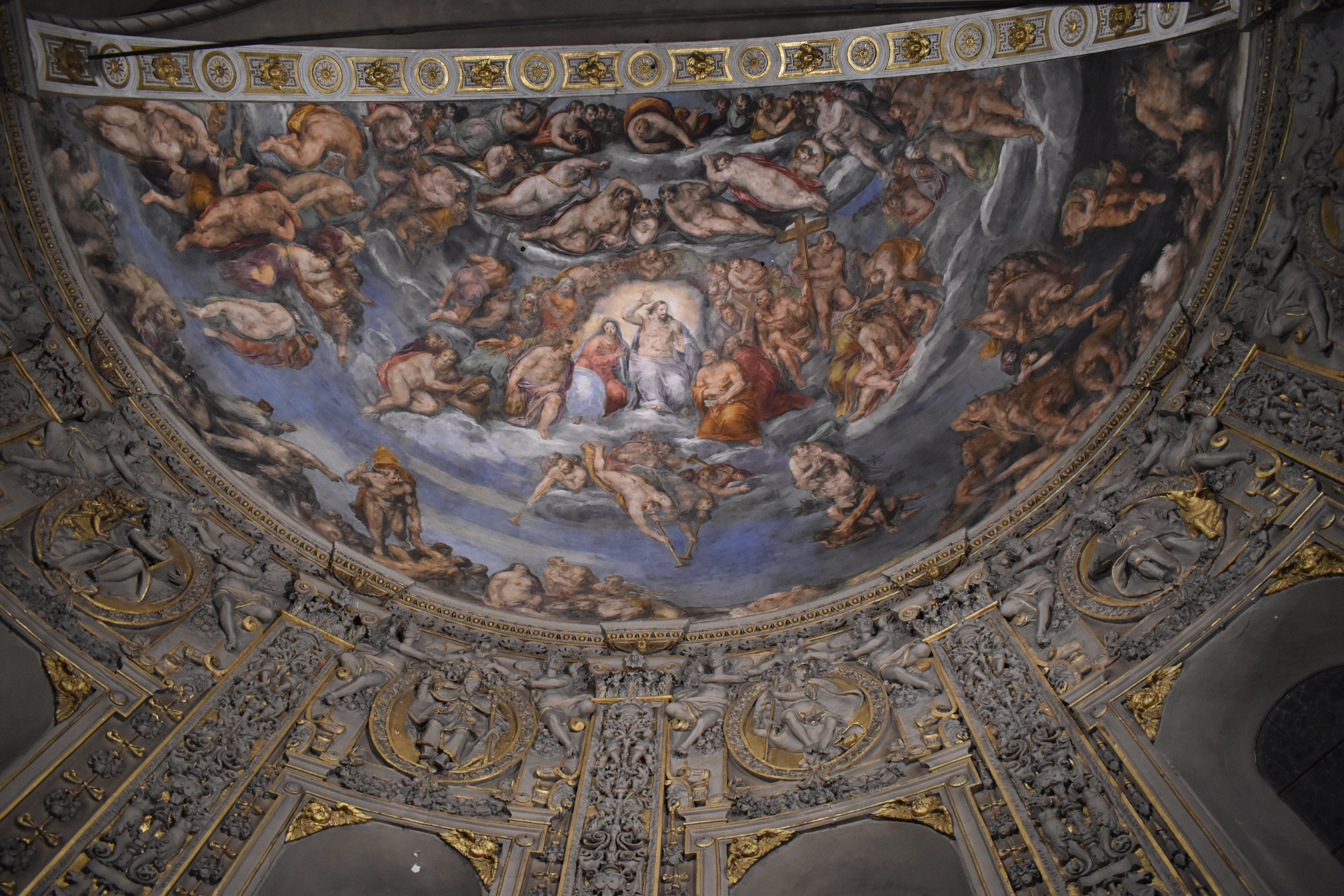 The Last Judgment